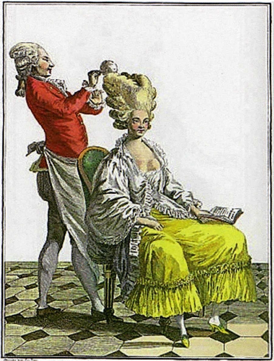 The French hairdresser Léonard Autié at work. Credit: Bibliothèque Nationale de France.